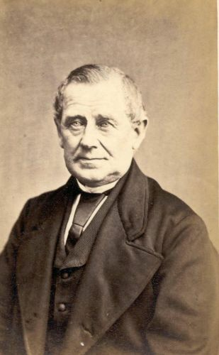 Hendrik Pasma